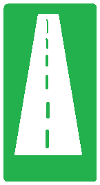 Sign of roads in Iran